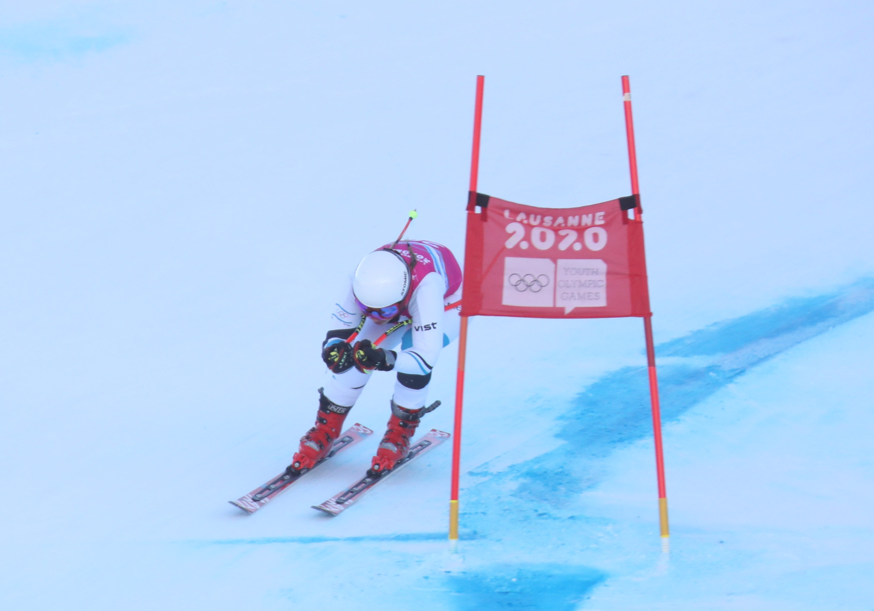 Women's Super G at the 2020 Winter Youth Olympics in Lausanne